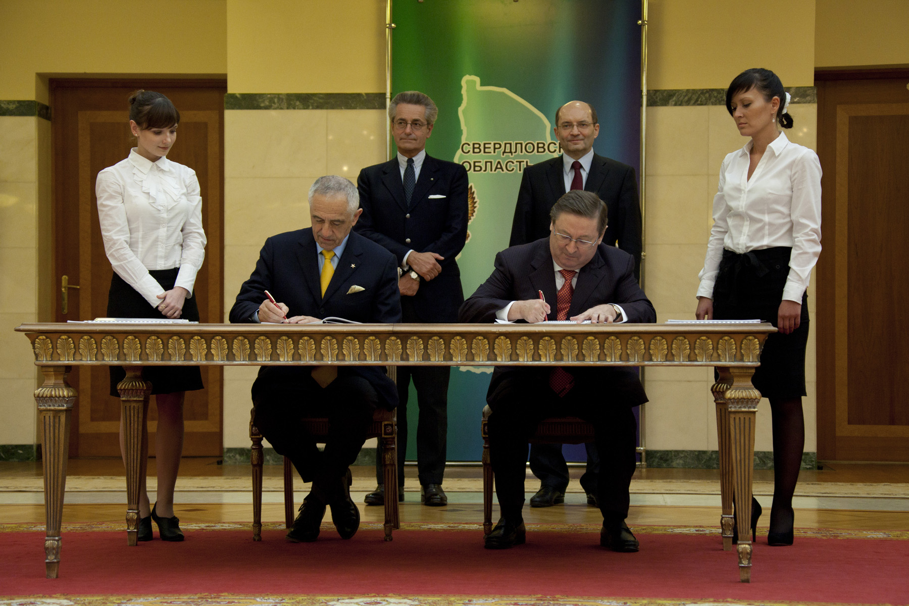 At the background row there are Italian ambassador to Russia Antonio Zanardi Landi and Sverlovsk Oblast governor Alexander Misharin — at the ceremony of setting up a major aluminium industry invest agreement regarding development of KUMZ factory.